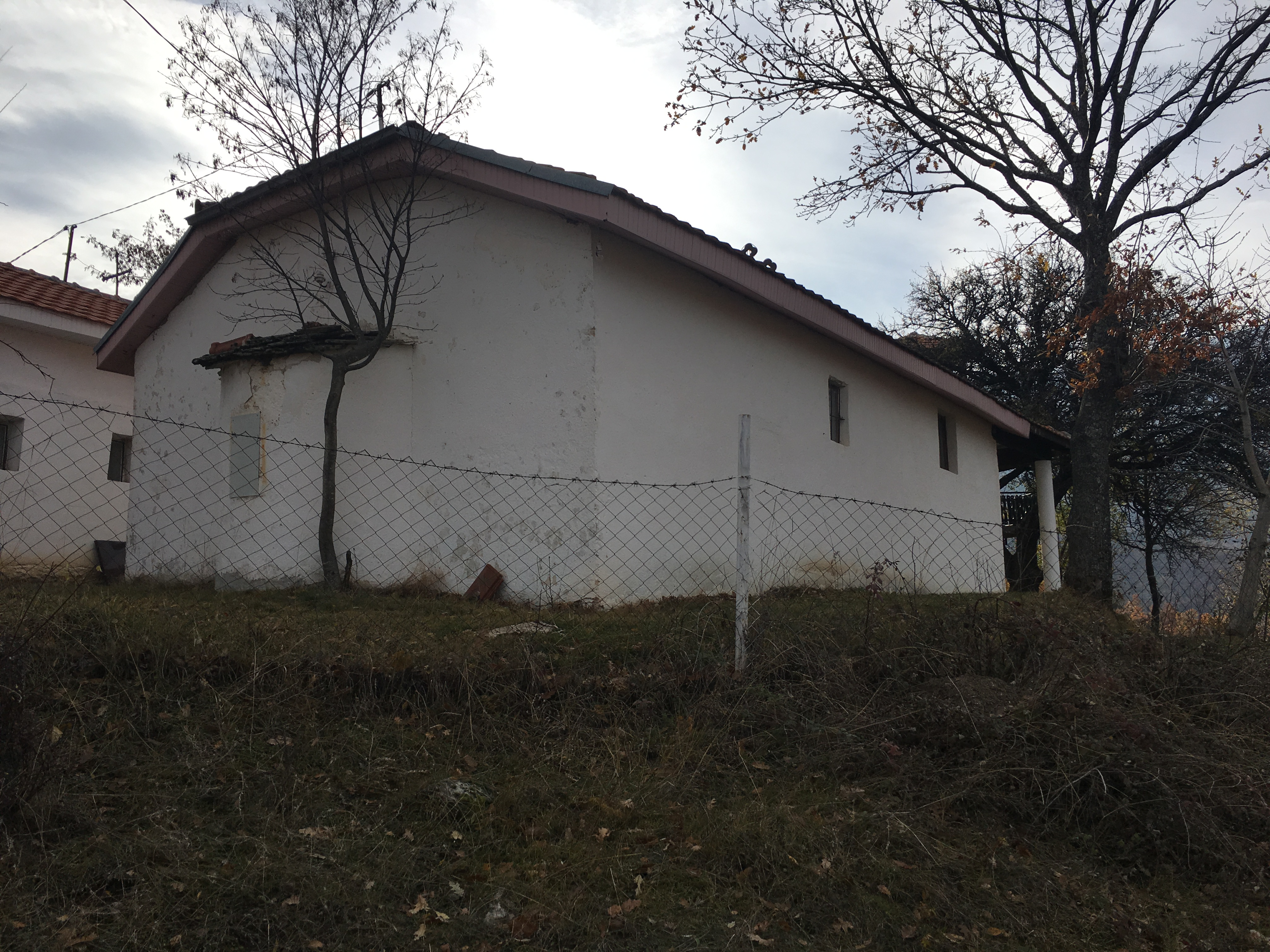 St. George Church of the Belovodica Monastery